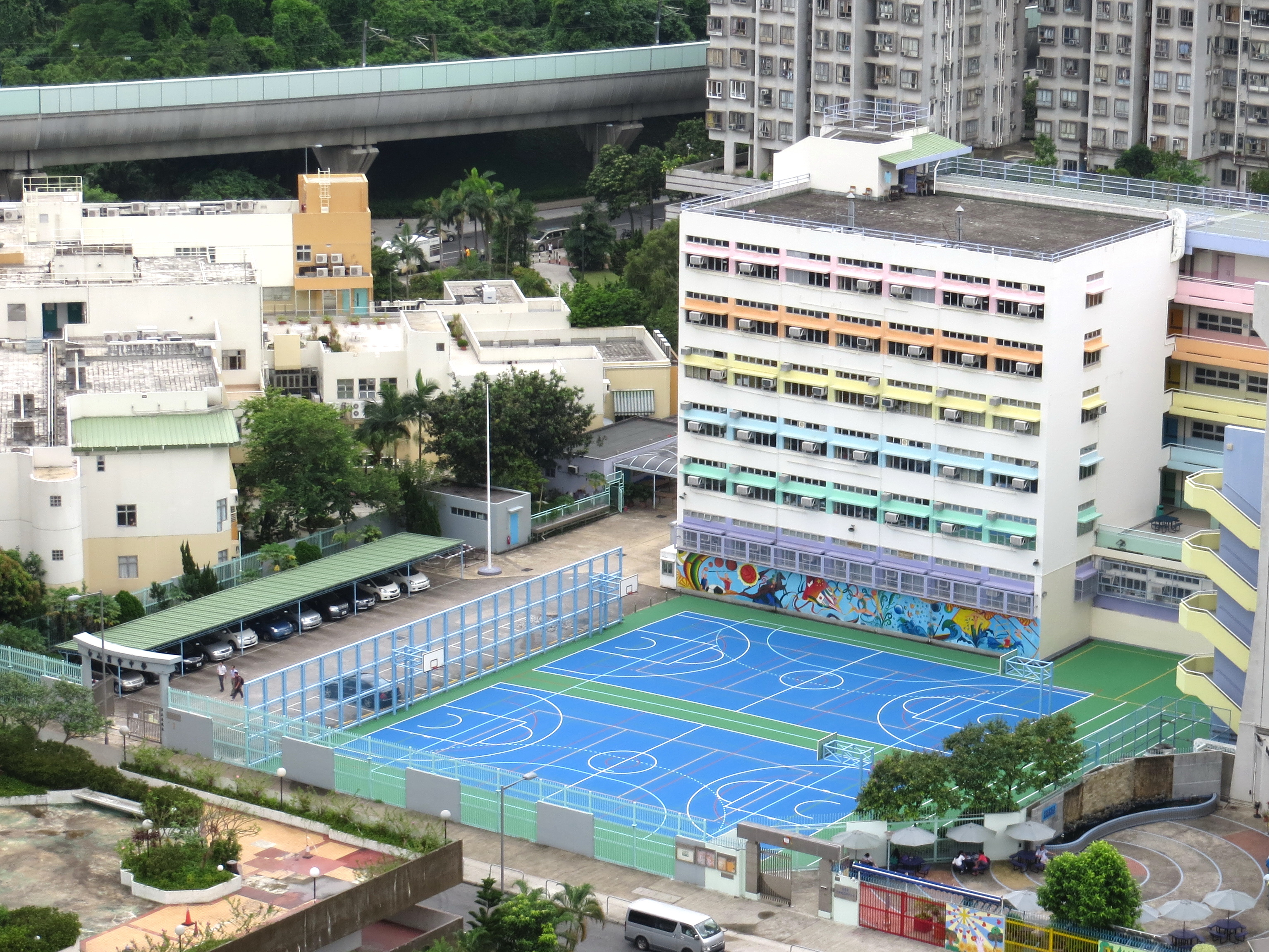 Toi Shan Association College, Basketball courts, Hong Kong.